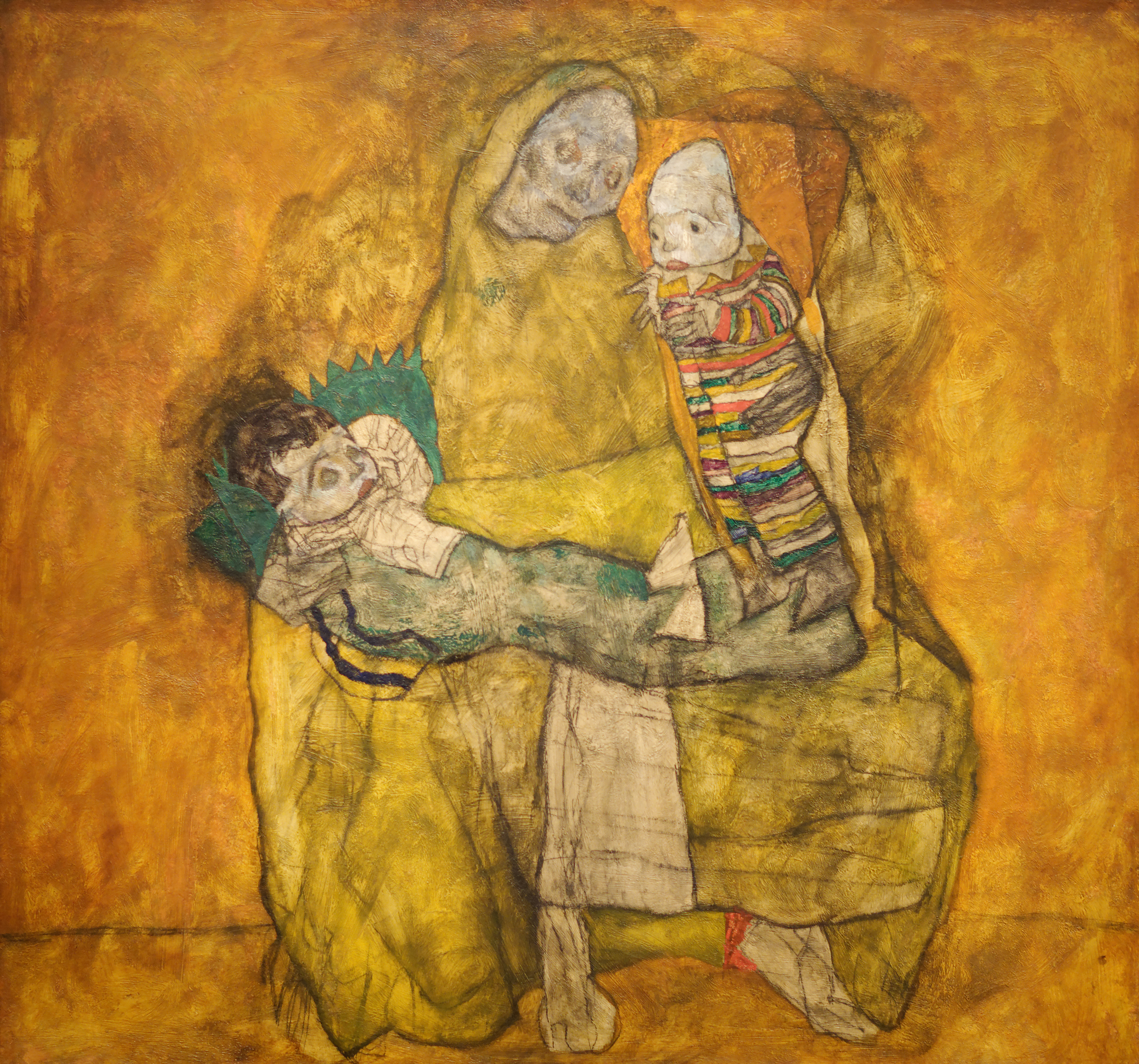 Mother with two children II.Oil on canevas, Egon Schiele 1915. Leopold Museum, Vienna (Austria). Inv.Nr 457